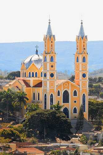 Church of Penha, Passos - MG/Brazil.